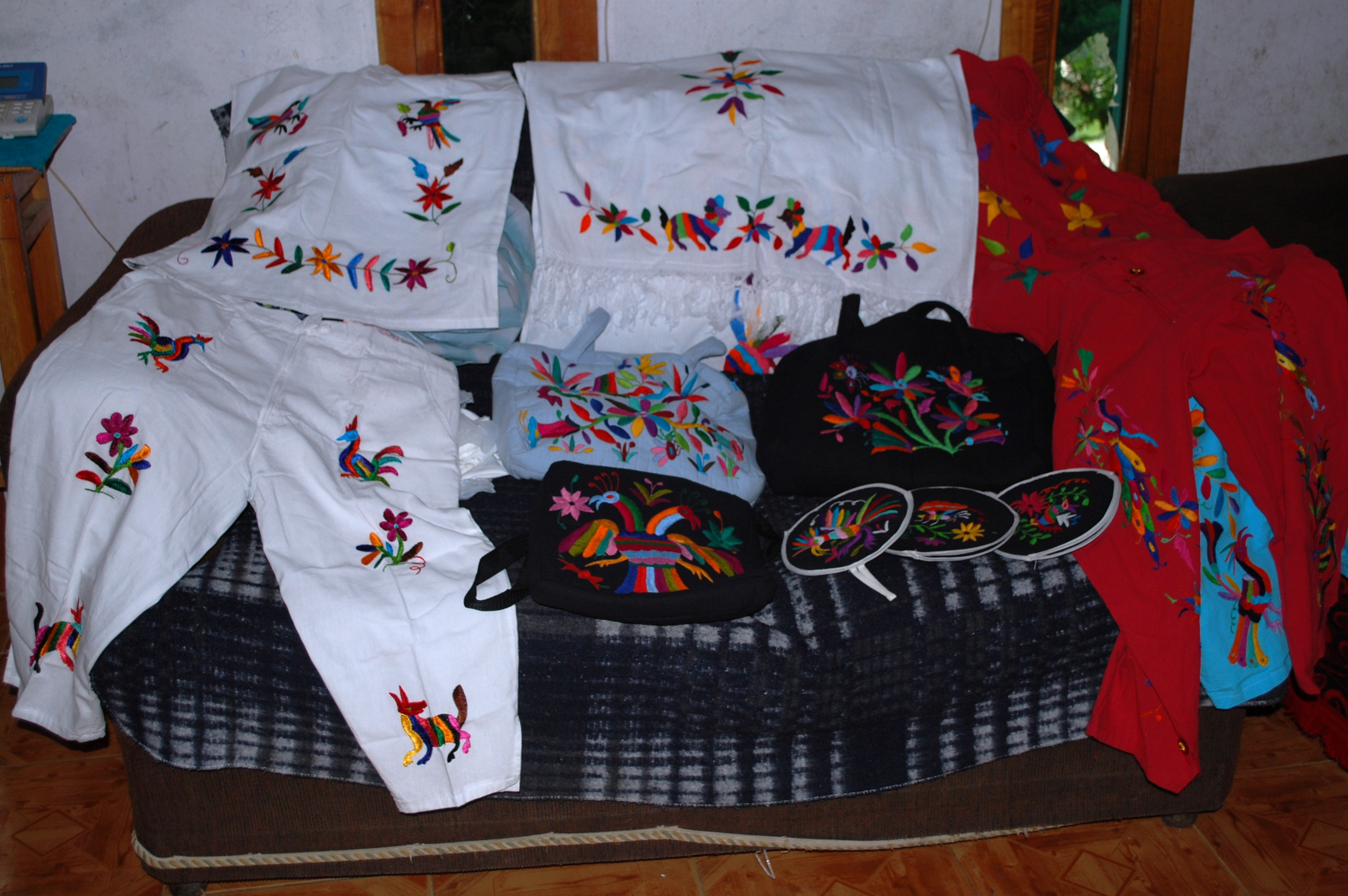 Tenango embroidery on modern garments, tortilla warmers and more at the home of artisan Sirenia Tellez Corona in Santa Monica, Tenango de Doria, Hidalgo, Mexico